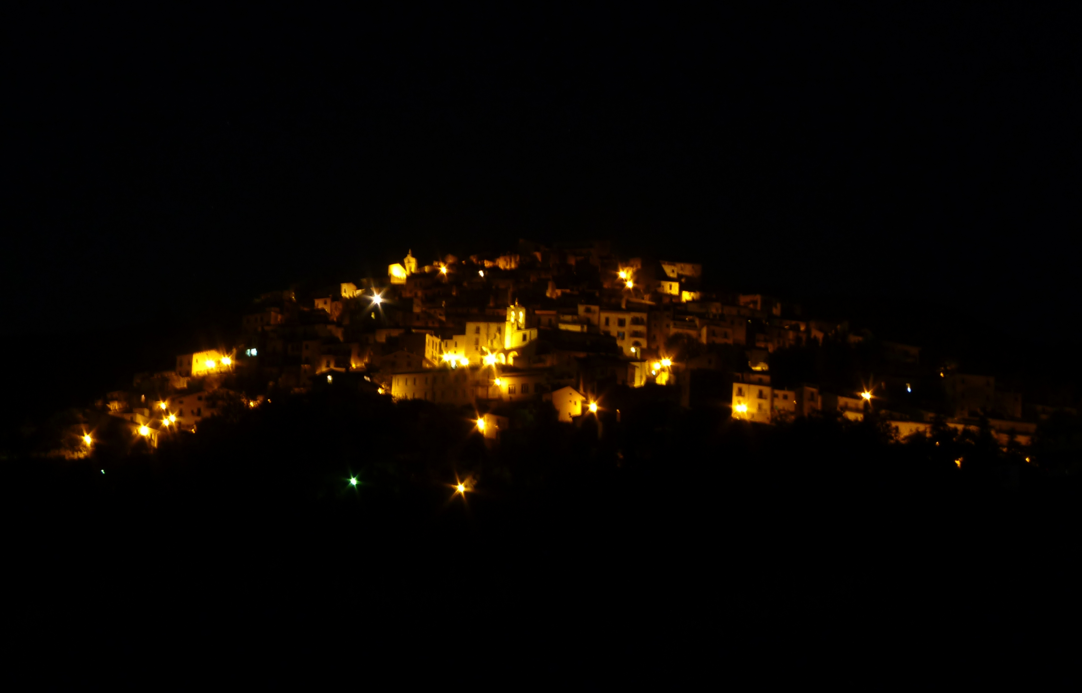 View of Pretoro by night, the province of Chieti, Abruzzo